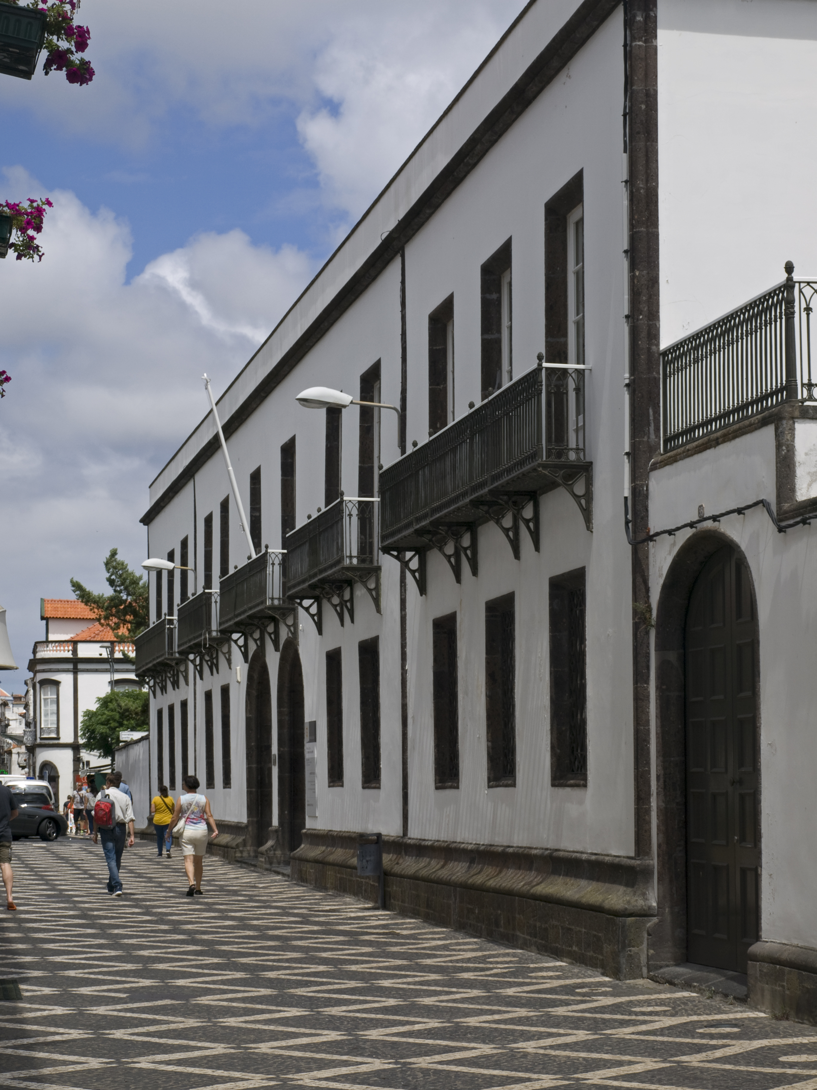 Palácio Marquês da Praia e Monforte, Ponta Delgada, view from Rua Machado dos Santos